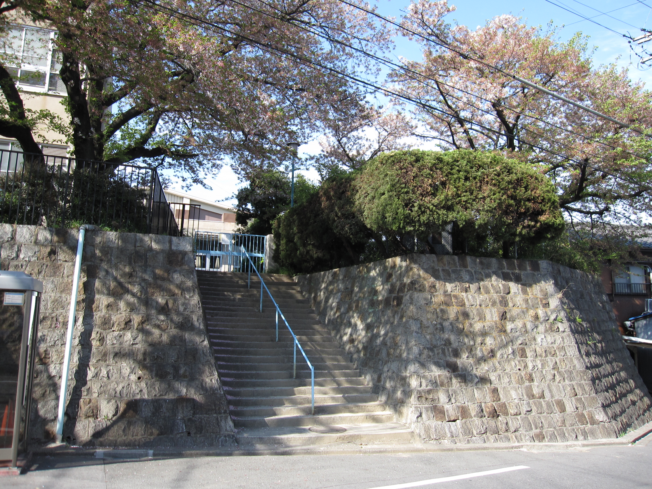 Site of Hoshizaki Castle in Nagoya.